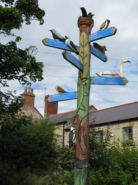 Signpost at Old Moor A signpost at the entrance to the RSPB facility at Old Moor, barnsley.